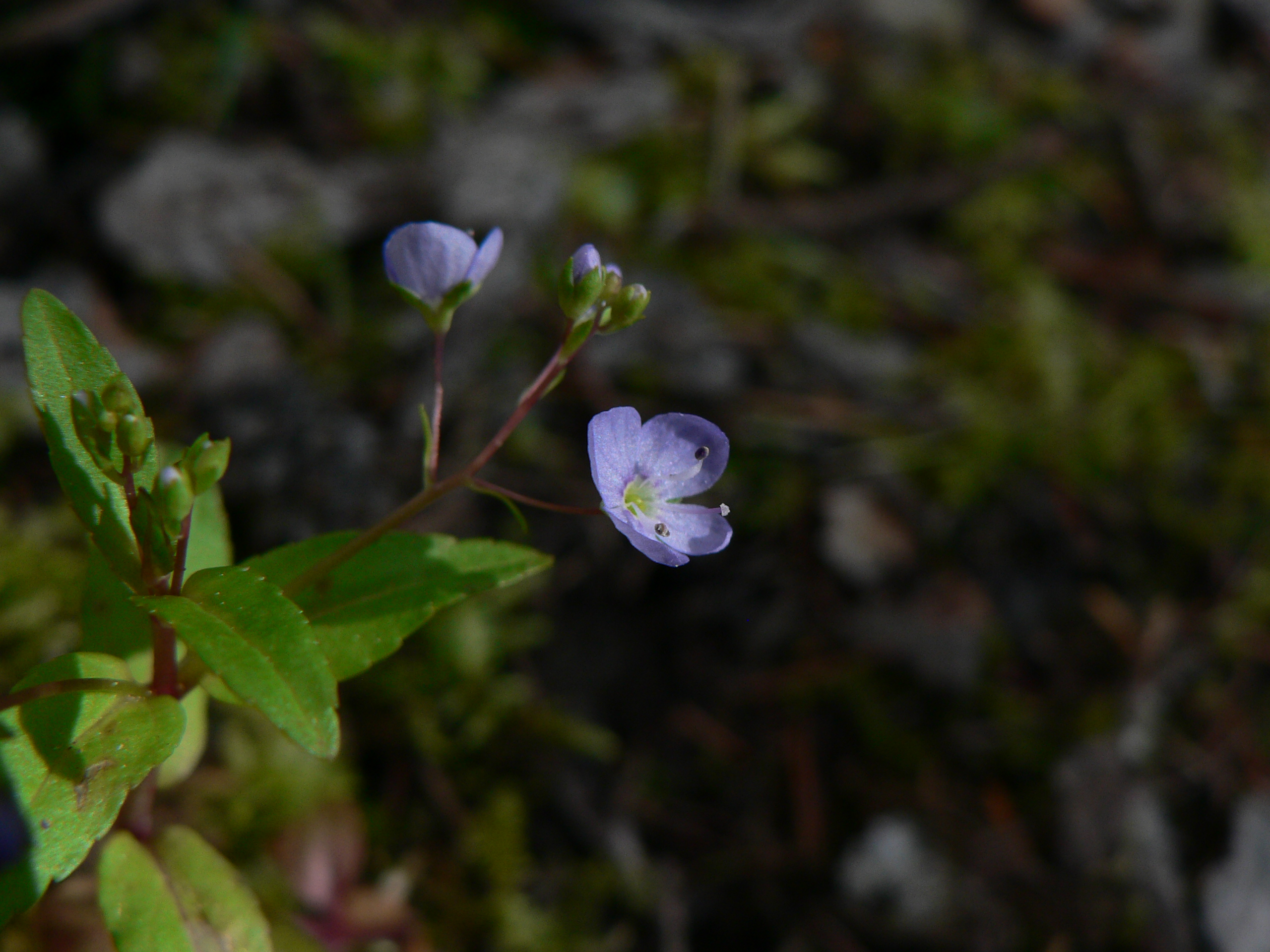 American Speedwell, American-brooklime